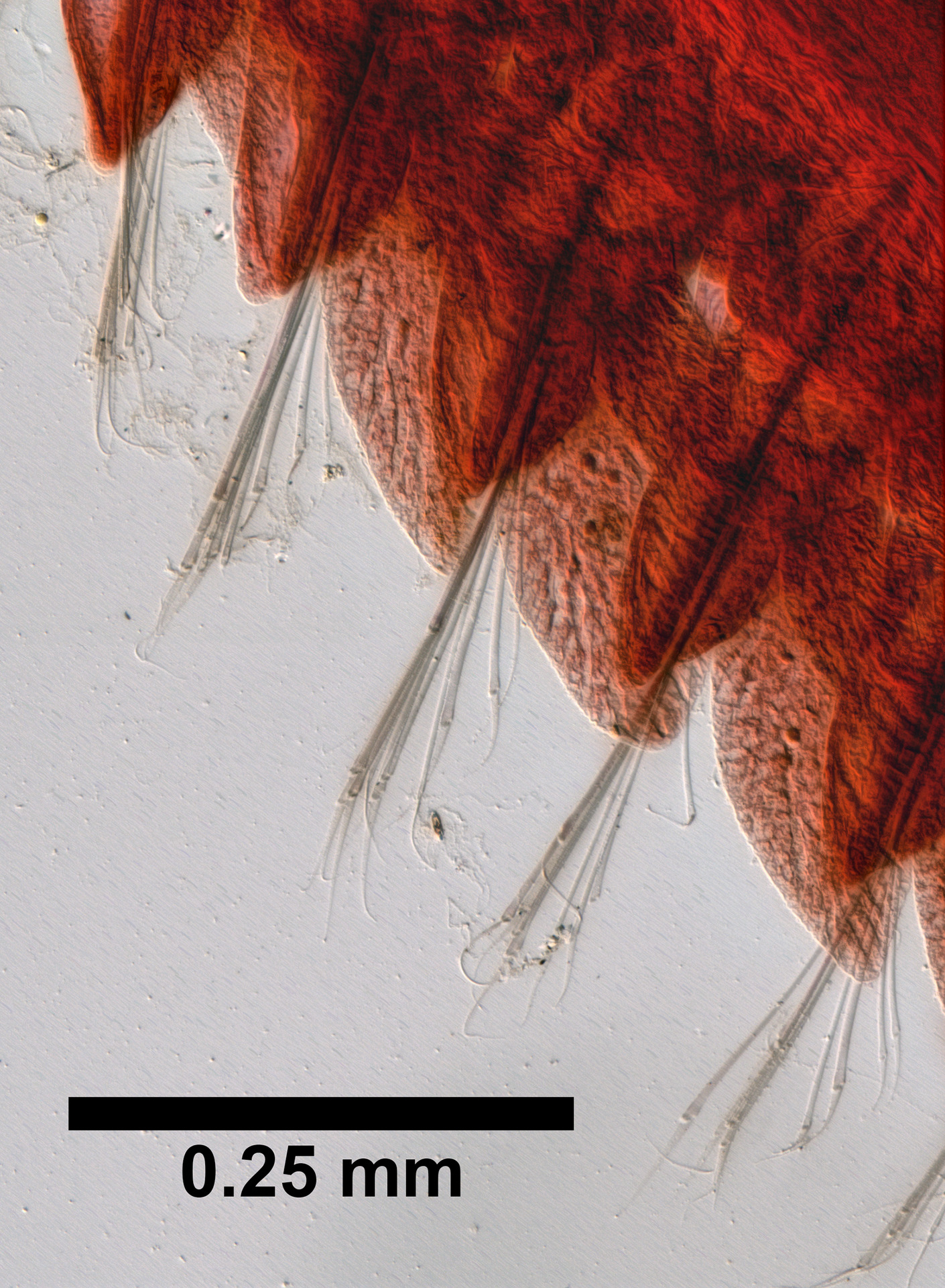 PRESERVED_SPECIMEN; ; ; microslide; IZ number 100562; lot count 1; Microslide 01, balsam, whole mount; 1871-10-01T00:00:00Z